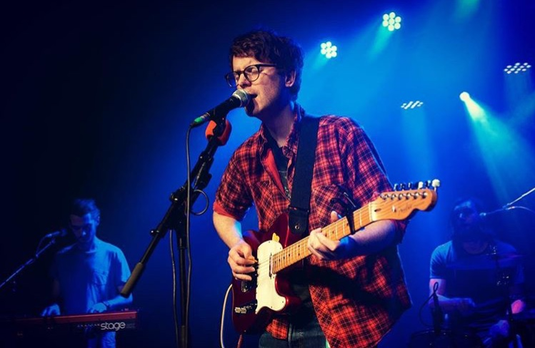 My Sad Captains live at Oslo, Hackney. Photo by Ryan Kalkman